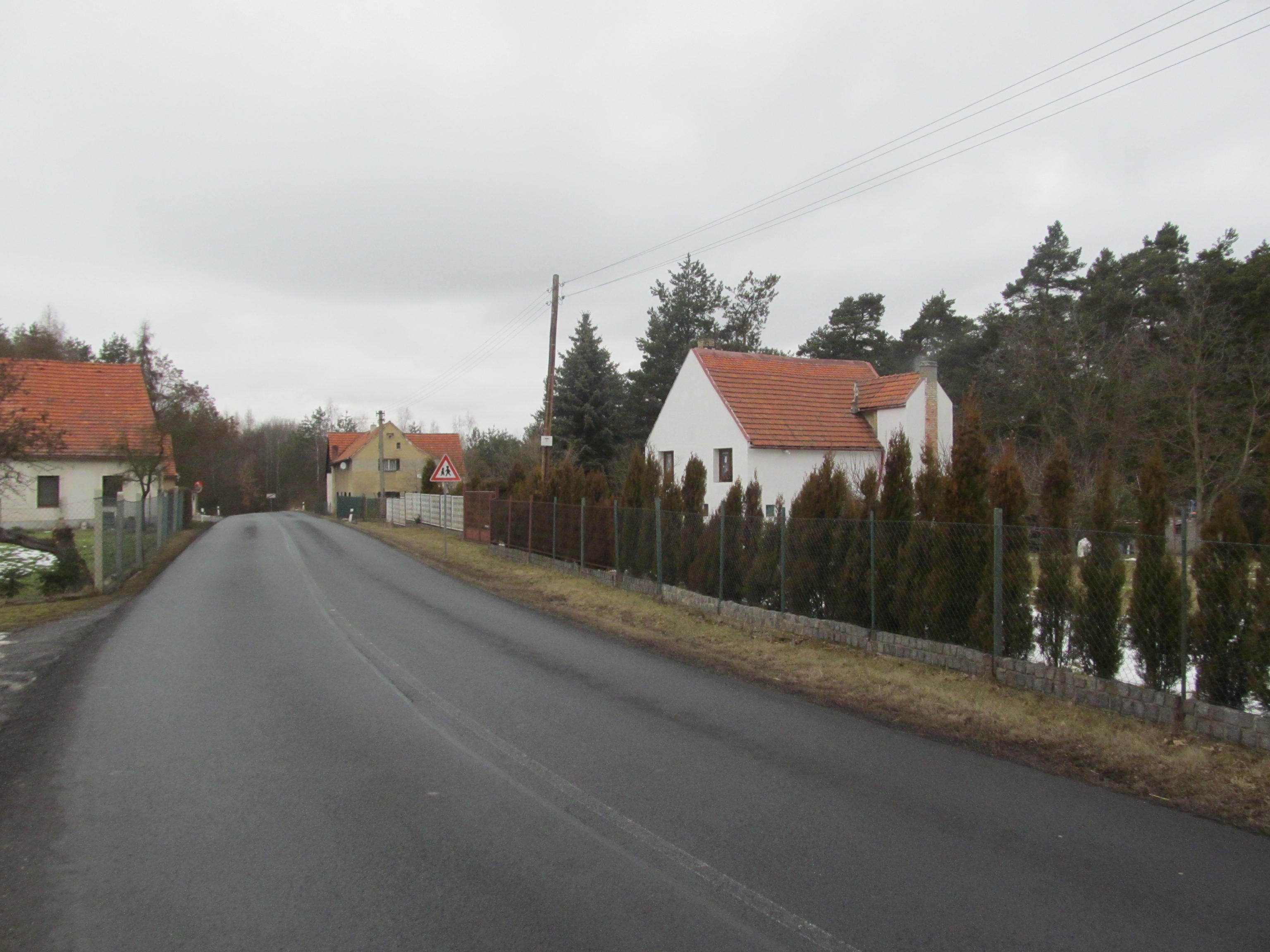 Street in Nová Hospoda